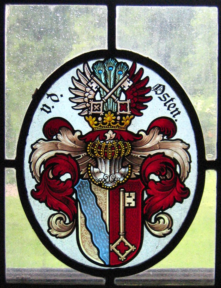 Hollwinkel Castle in Preußisch Oldendorf, District of Minden-Lübbecke, North Rhine-Westphalia, Germany.